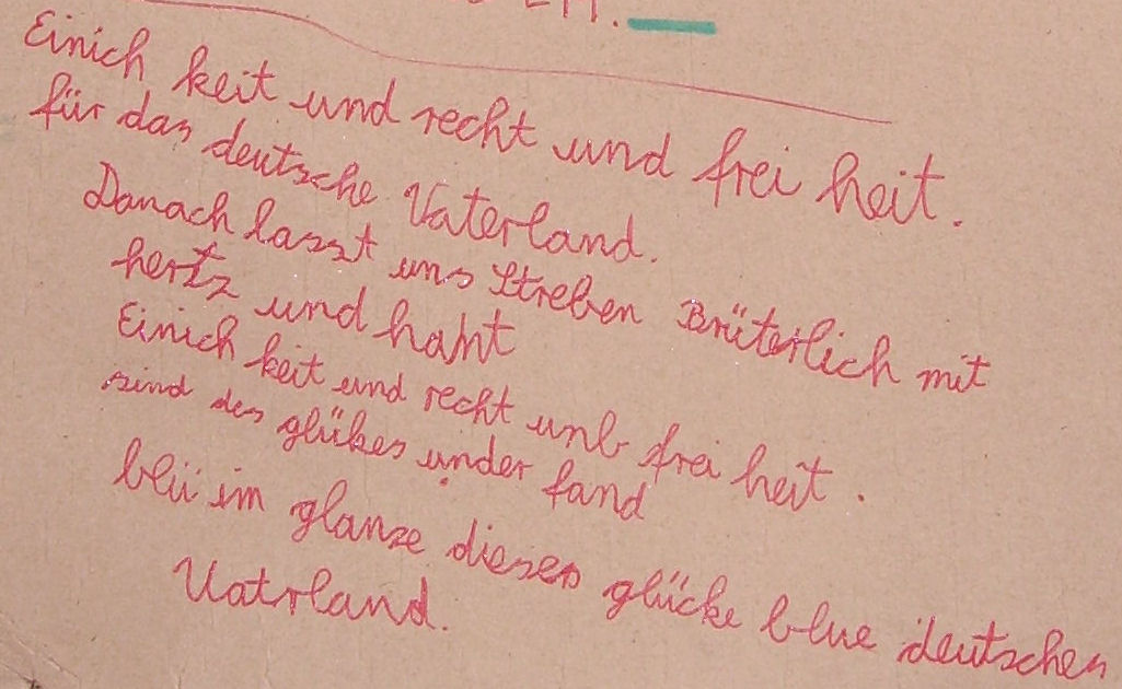 German national anthem written by a seven year old boy